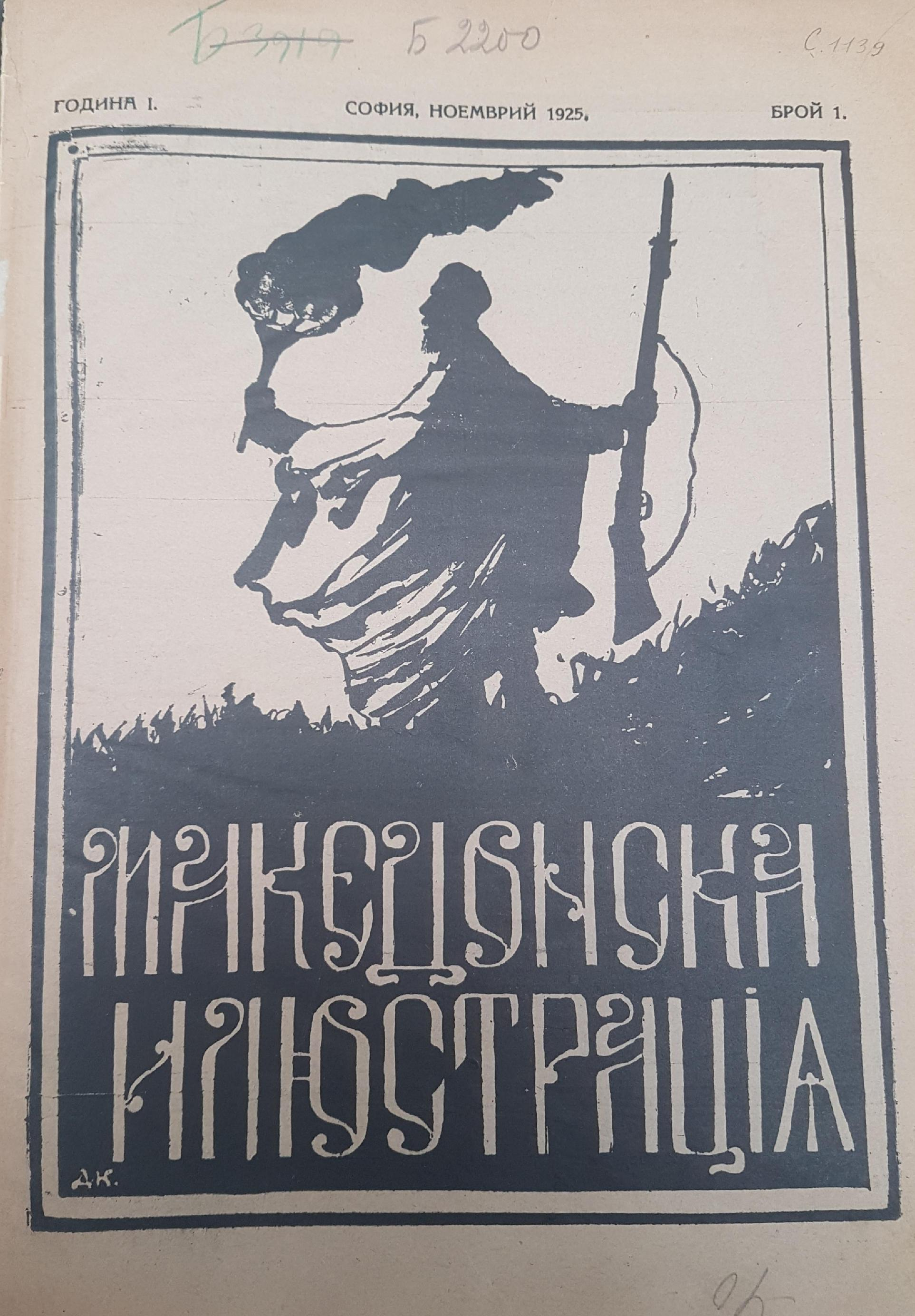 Makedonska Ilyustratsiya 1 - November 1925